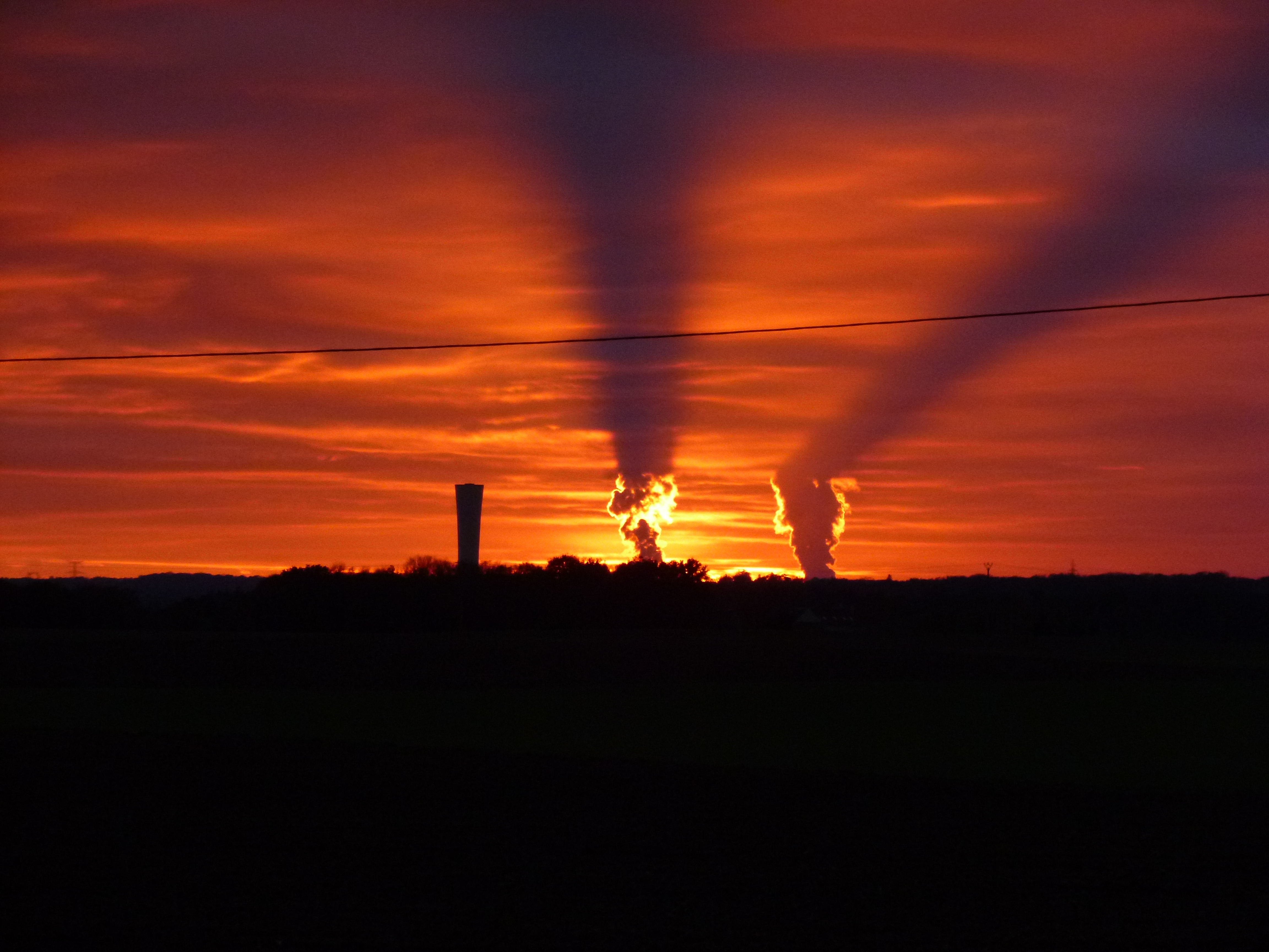 Loiret, Centre region, France Seen from the D 150 road (going from Saint-Maurice-sur-Aveyron to Château-Renard - 35 km away), steam clouds and shadows from Dampierre-en-Burly nuclear power plant. The water tower seen on the left of the clouds of steam is that of Montbouy.